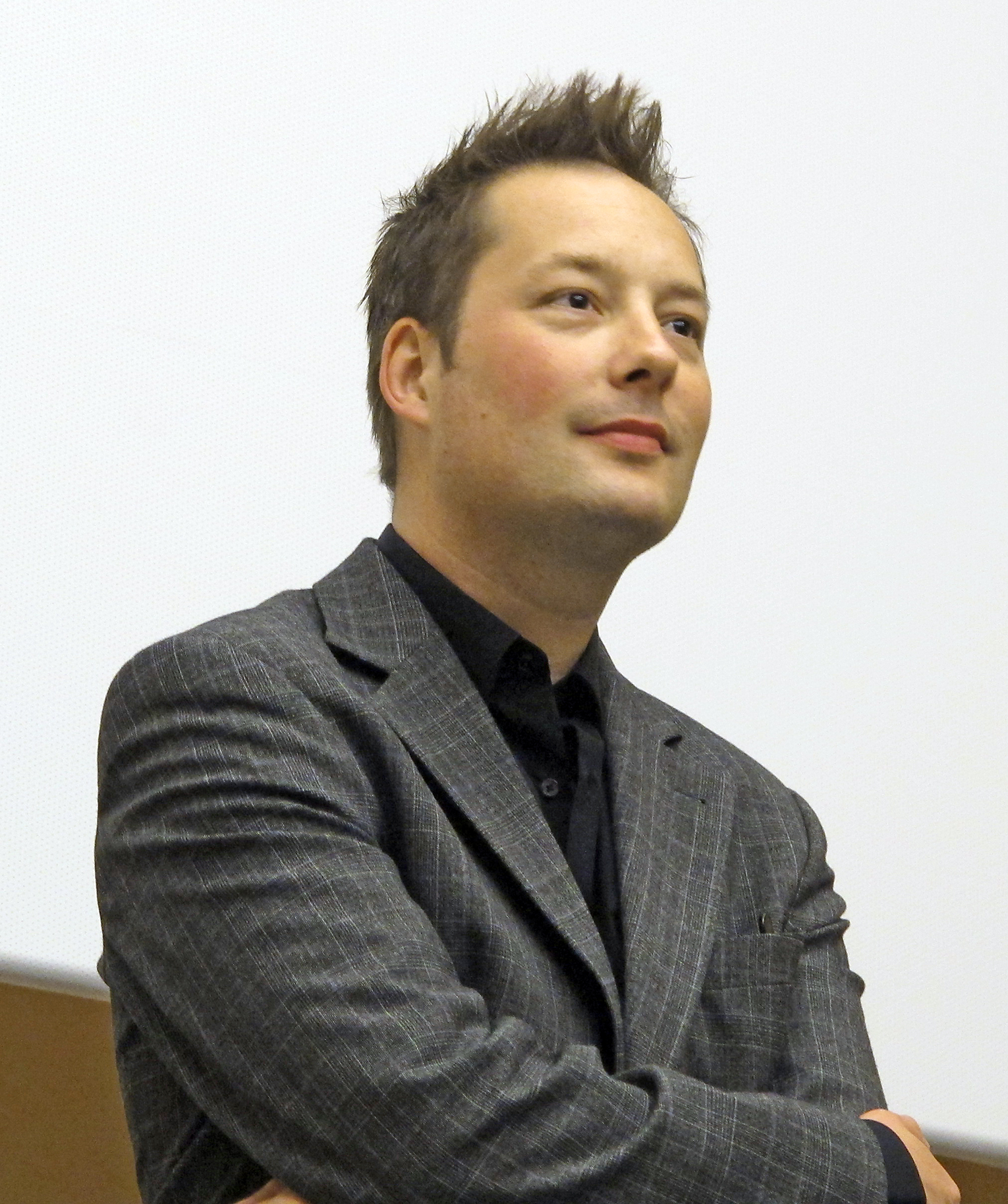 Author Tom Hillenbrand during a lecture in Luxembourg